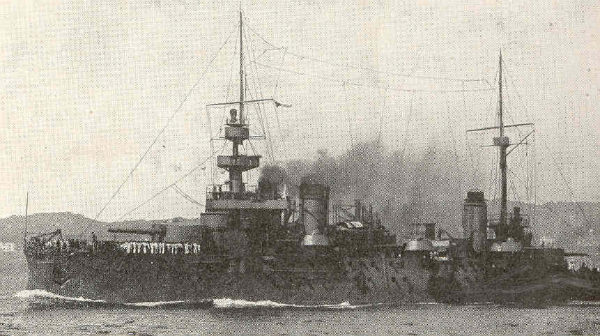 Subject: Liberte (Battleship), Armored ships Tag: Vessels